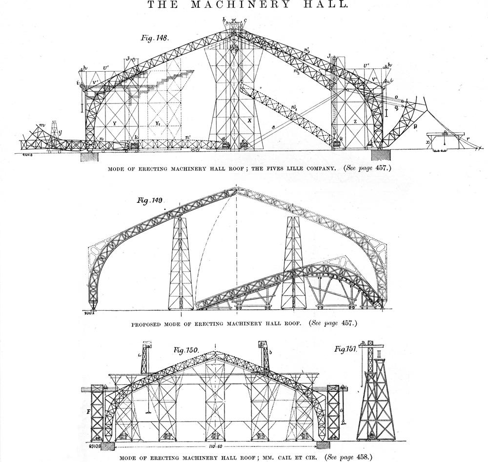 Construction details: two methods of erecting the roof by the two construction companies, from Engineering, The Paris Exhibition, May 3, 1889 (Vol. XLVII)